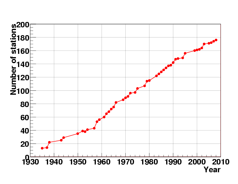 Moscow Metro, number of stations vs year